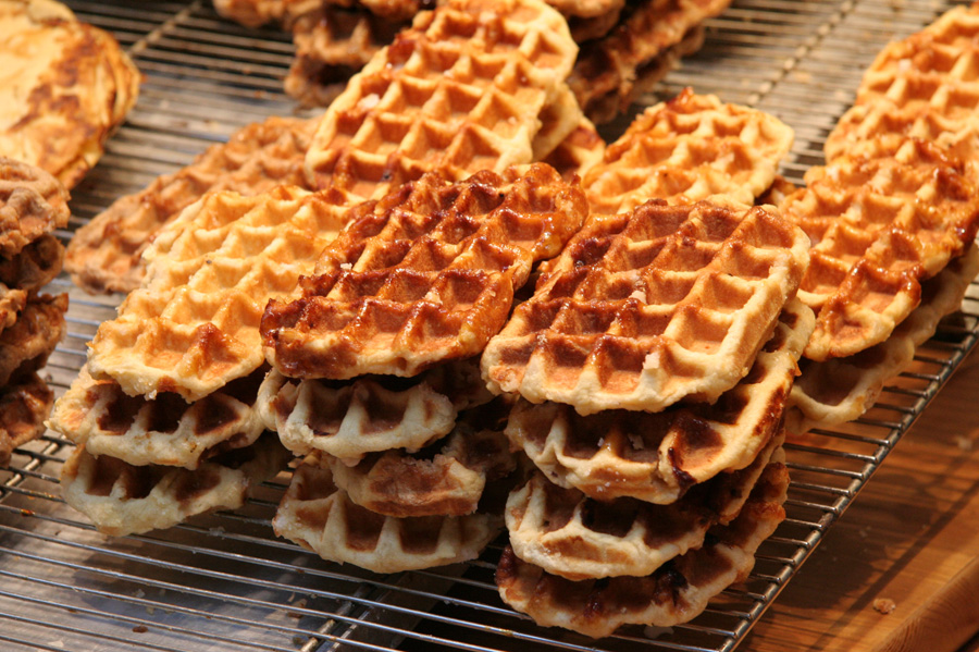 Liège style waffle (Liège Waffle Gaufre de Liège Luikse wafel Lütticher Waffel) Author : Jacques Renier Date taken : 13 DEC 2005 Place : city of Liège, Belgium Personal picture, I set it "public domain".